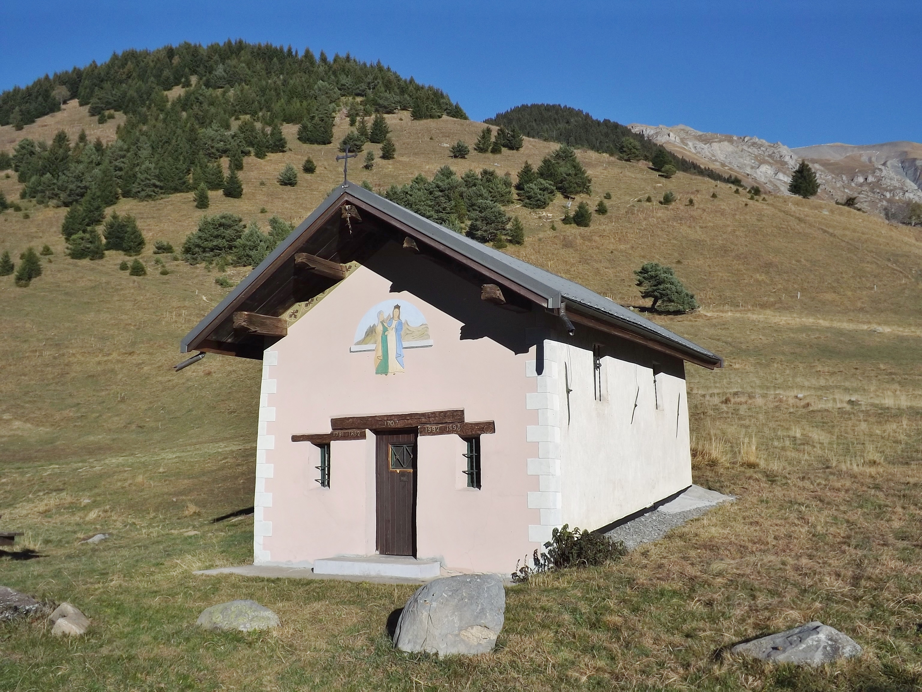 Sight of the chapelle du Chaussy chapel, built in 1707 at the col du Chaussy pass (1,533 meters high), in the Maurienne valley, Savoie, France.